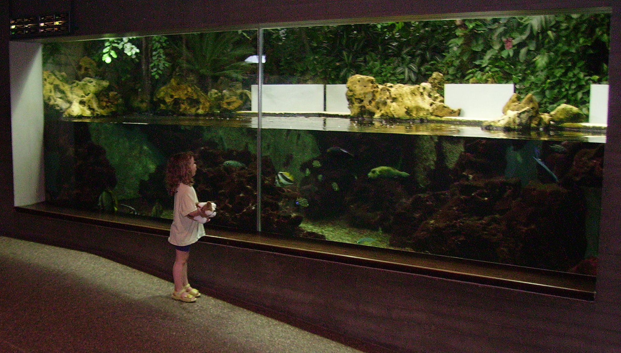 An Aquarium in the zoological garden and botanical garden Wilhelma in Stuttgart, Germany